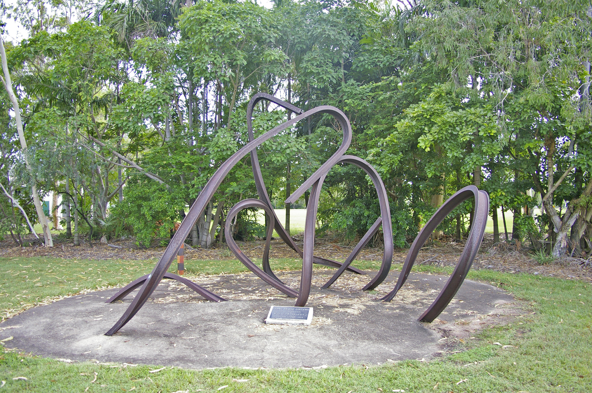 Three House Girders twisted during Tropical Cyclone Tracy on 25th December 1974.